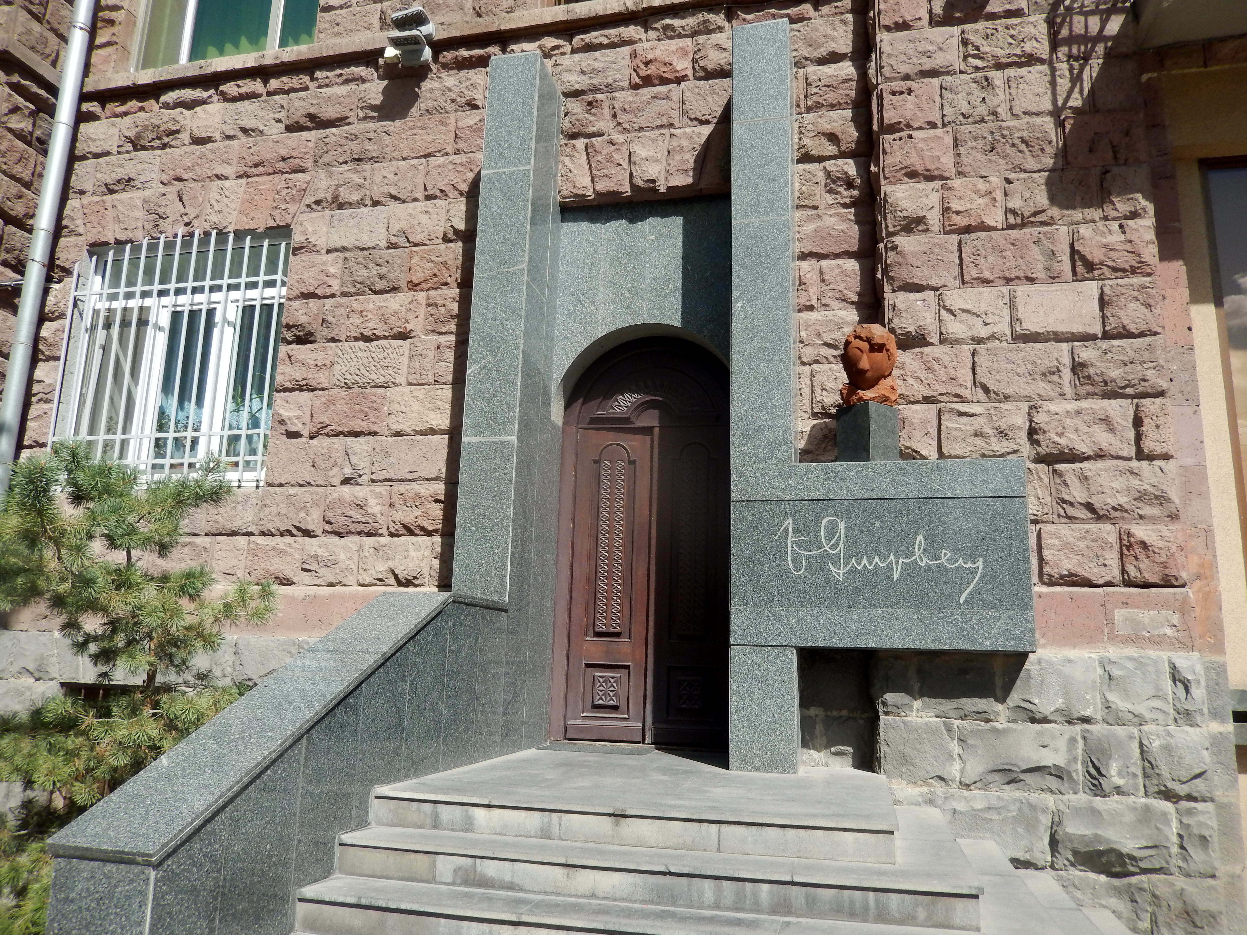 Buildings in Yerevan